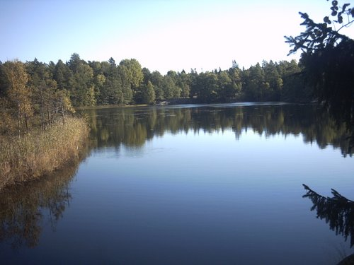 Photo of the lake Dammsjön